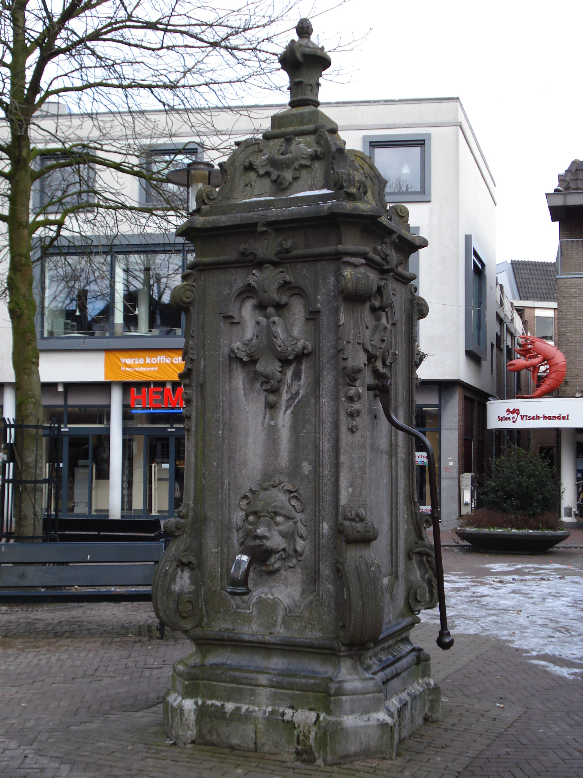 Water pump from the 18th century on the Market (Markt) in Tiel, Netherlands.